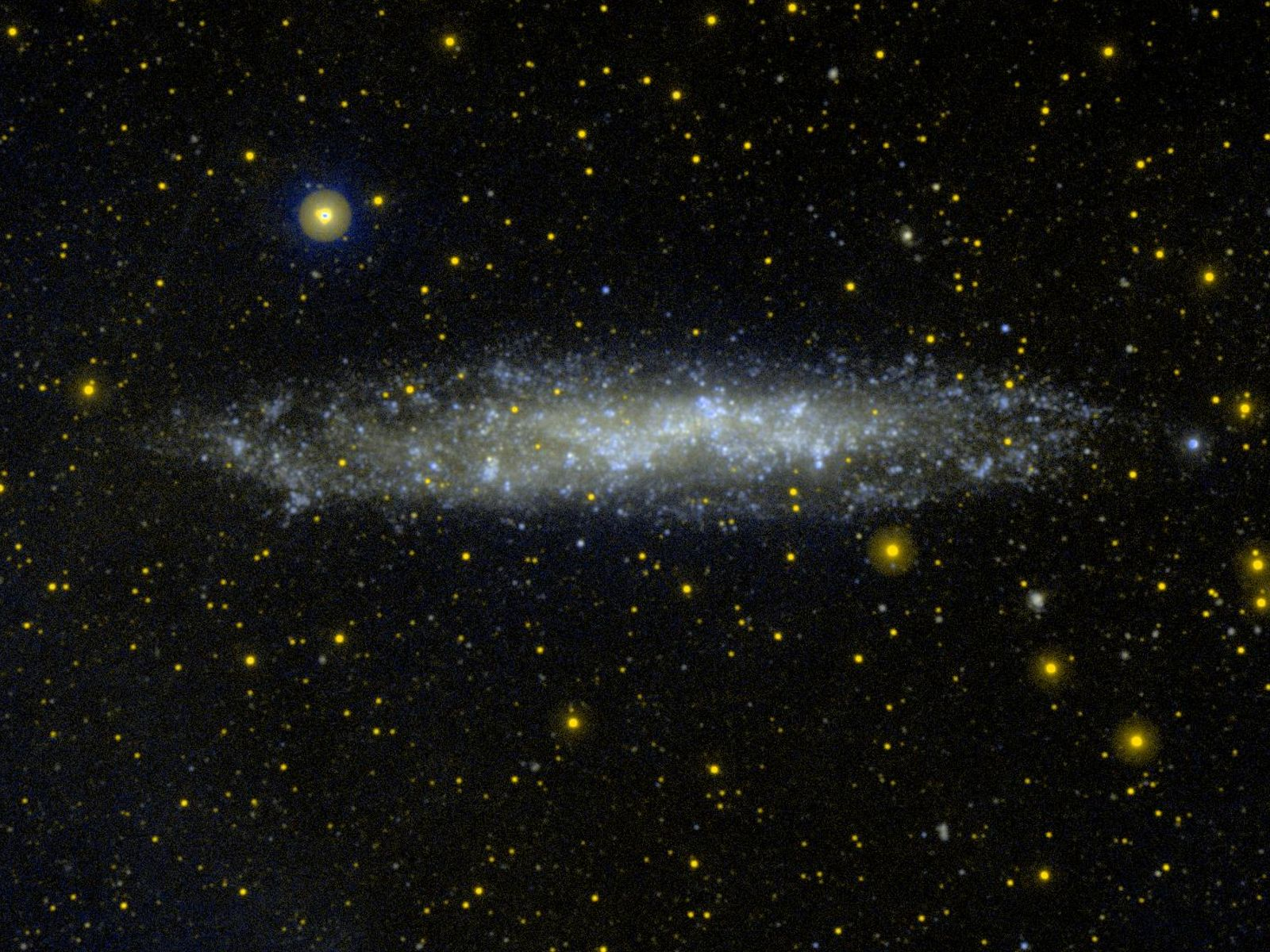 NGC 3109 galaxy by GALEX